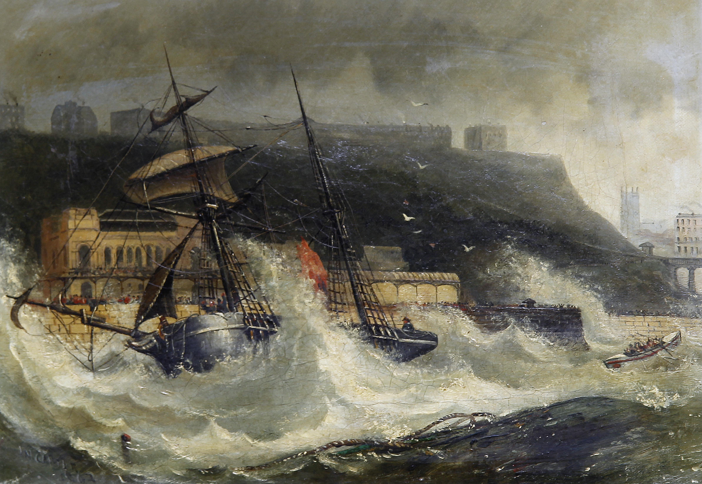 Wreck of the Copeland South Shields Nov 2 1861 at Scarborough Spa. The vessel was named the Copeland, of South Shields, Connell, master, laden with dressed granite pavings for London. She has become a total wreck, having broken to pieces at the next tide, and the whole of her cargo deposited in front of the Spa.[1] RNLI Lifeboat Amelia, built 1861.[2]